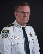 Sheriff Richard Nugent